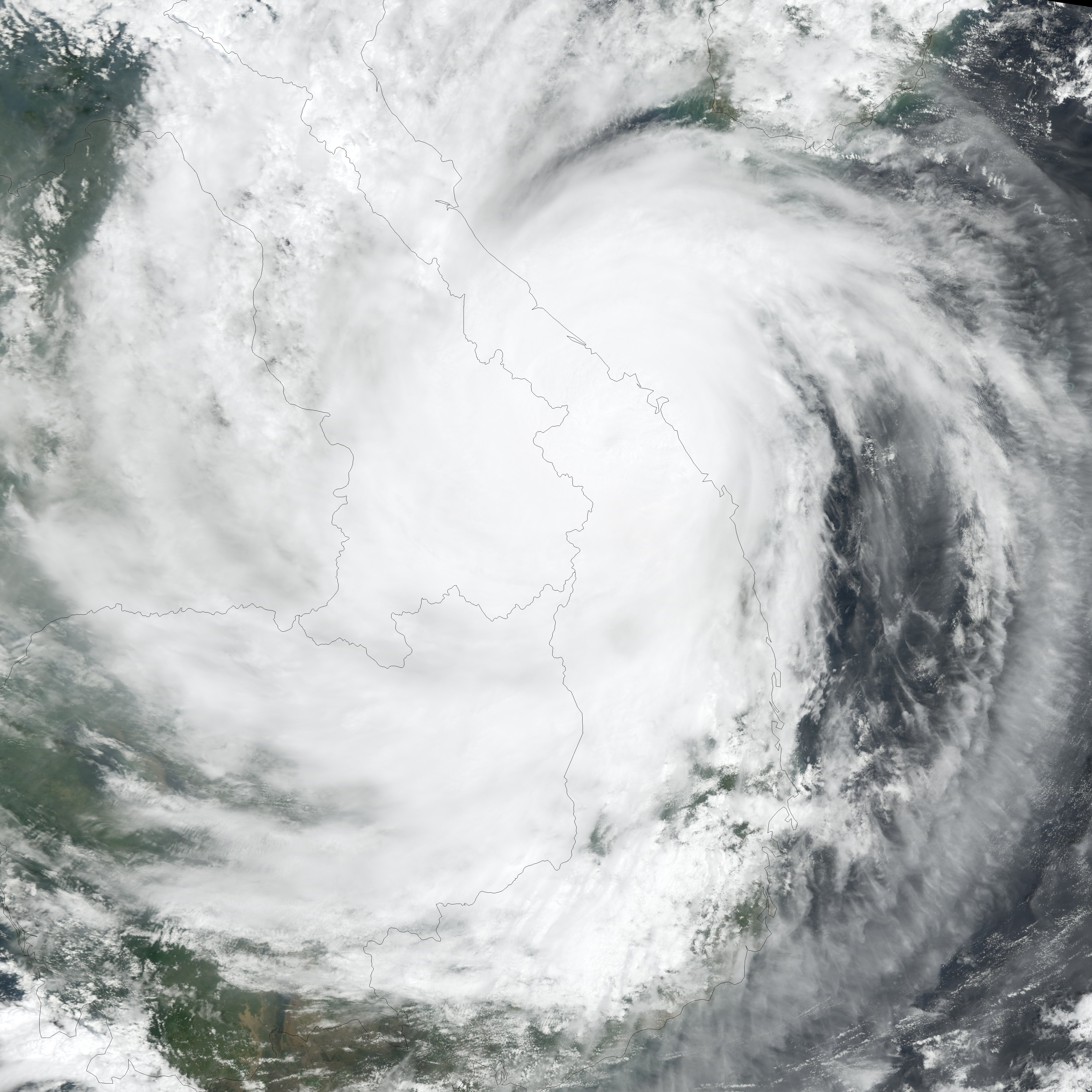 Typhoon Xangsane formed on September 25, 2006, in the western Pacific near the coast of the Philippine Islands. Over the next 36 hours, it grew from a tropical depression (area of low air pressure) to a typhoon. The typhoon crossed the Philippines and was credited for causing 76 deaths there before crossing the South China Sea and coming ashore in central Vietnam on October 1, according to the Agence France-Presse news service. As the storm came ashore in central Vietnam, it packed winds of 148 kilometers per hour (92 miles per hour), causing another six deaths and many injuries. Vietnamese authorities called Typhoon Xangsane the biggest storm to hit the country in several decades. This photo-like image was acquired by the Moderate Resolution Imaging Spectroradiometer (MODIS) on the Terra satellite on October 1, 2006, at 10:10 a.m. local time (03:10 UTC). Xangsane at the time of this image was a well-defined spiral of clouds, but other typhoon characteristics were not obvious. It lacked a well-defined eye, and the spiral arms of the storm did not have sharp edges or evidence of strong thunderstorms. Much of the initial power of the storm had apparently been sapped as the typhoon came over land.